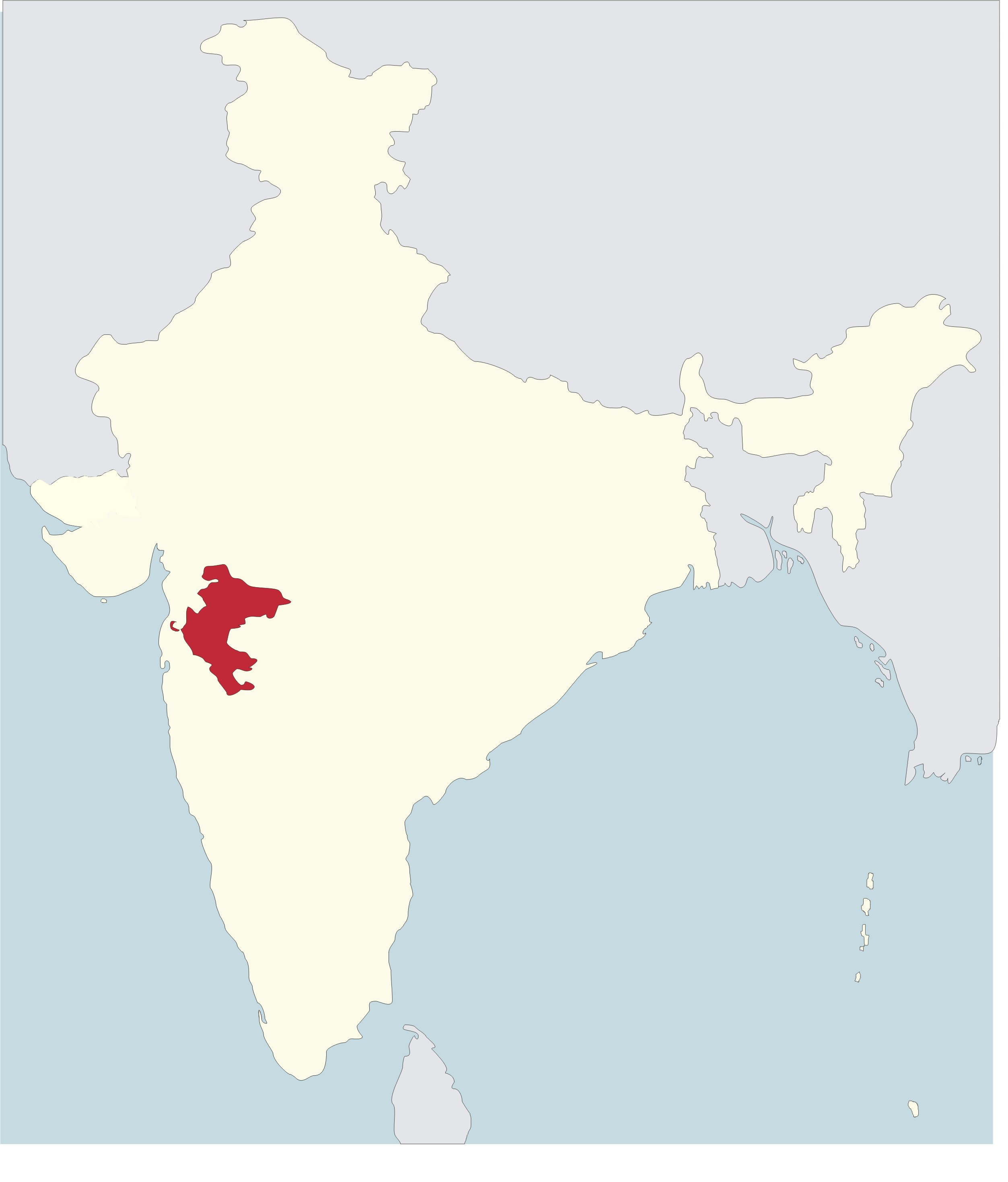 Map of the Roman Catholic Diocese of Nashik in India